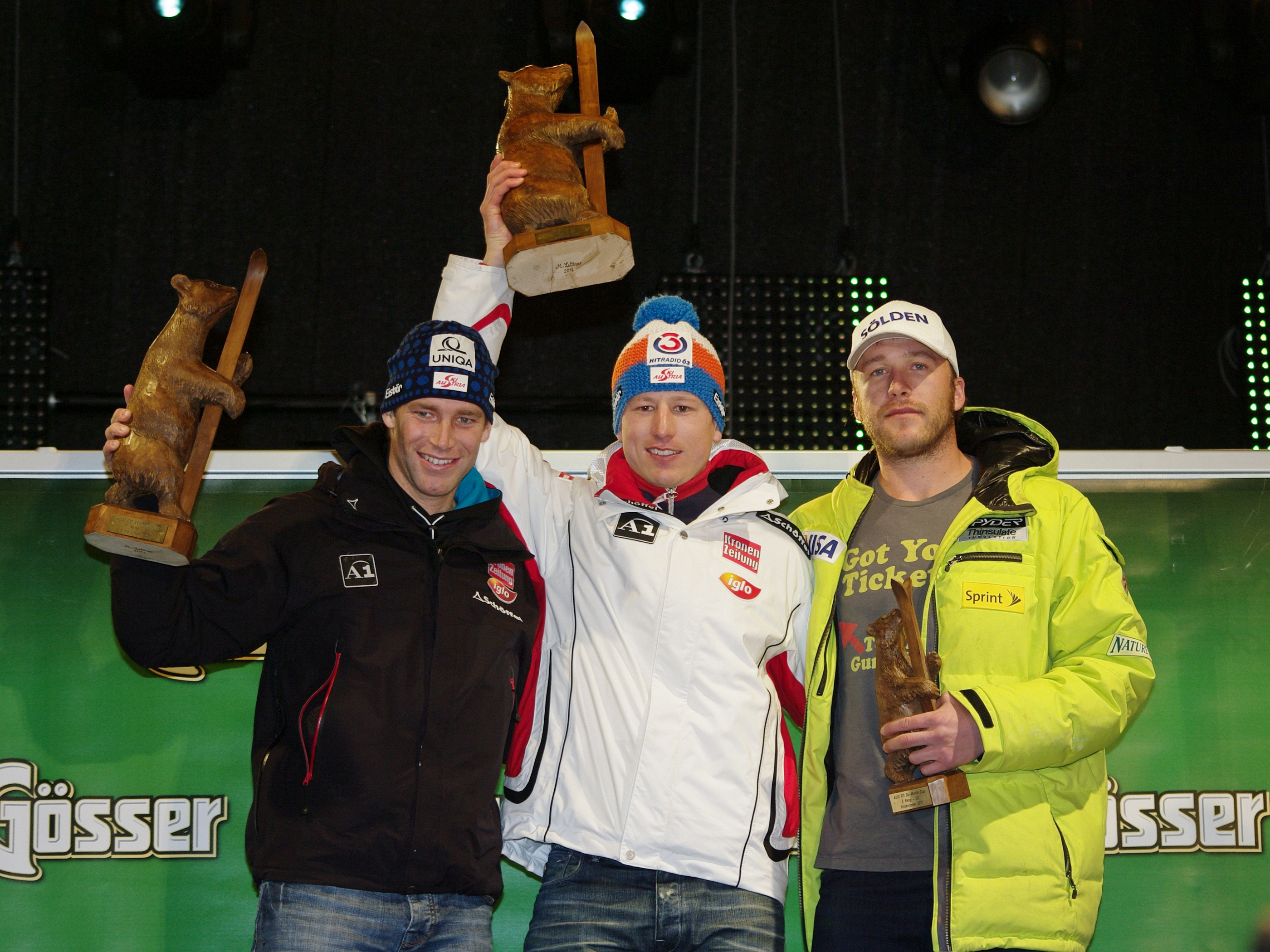 Prize giving ceremony for the World Cup Super-G in Hinterstoder (Austria) on 5 February 2011: 1st place: Hannes Reichelt (middle), 2nd place Benjamin Raich (left), 3rd place: Bode Miller (right).